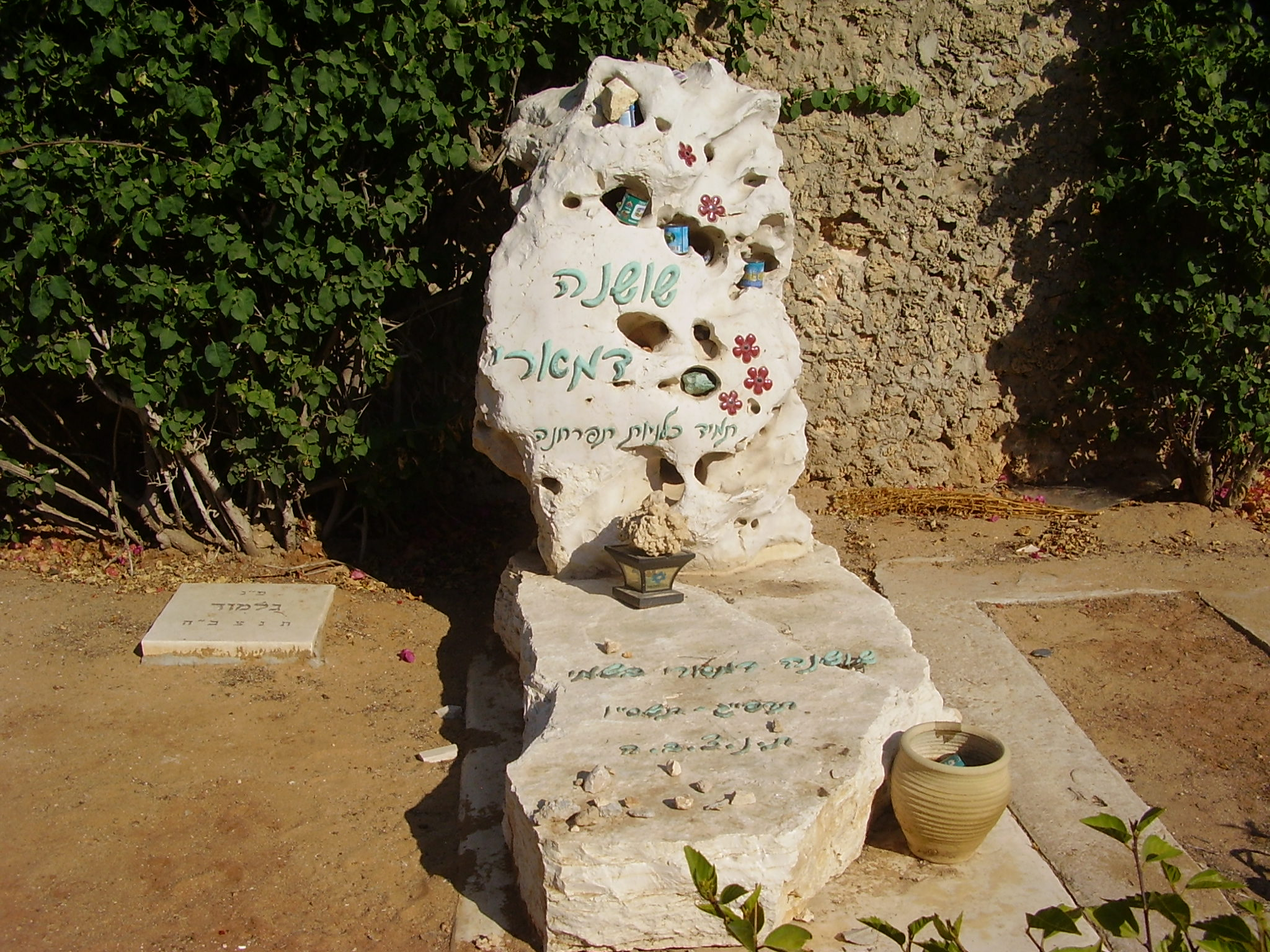 Tomb of the singer Shoshana Damari in Tel Aviv